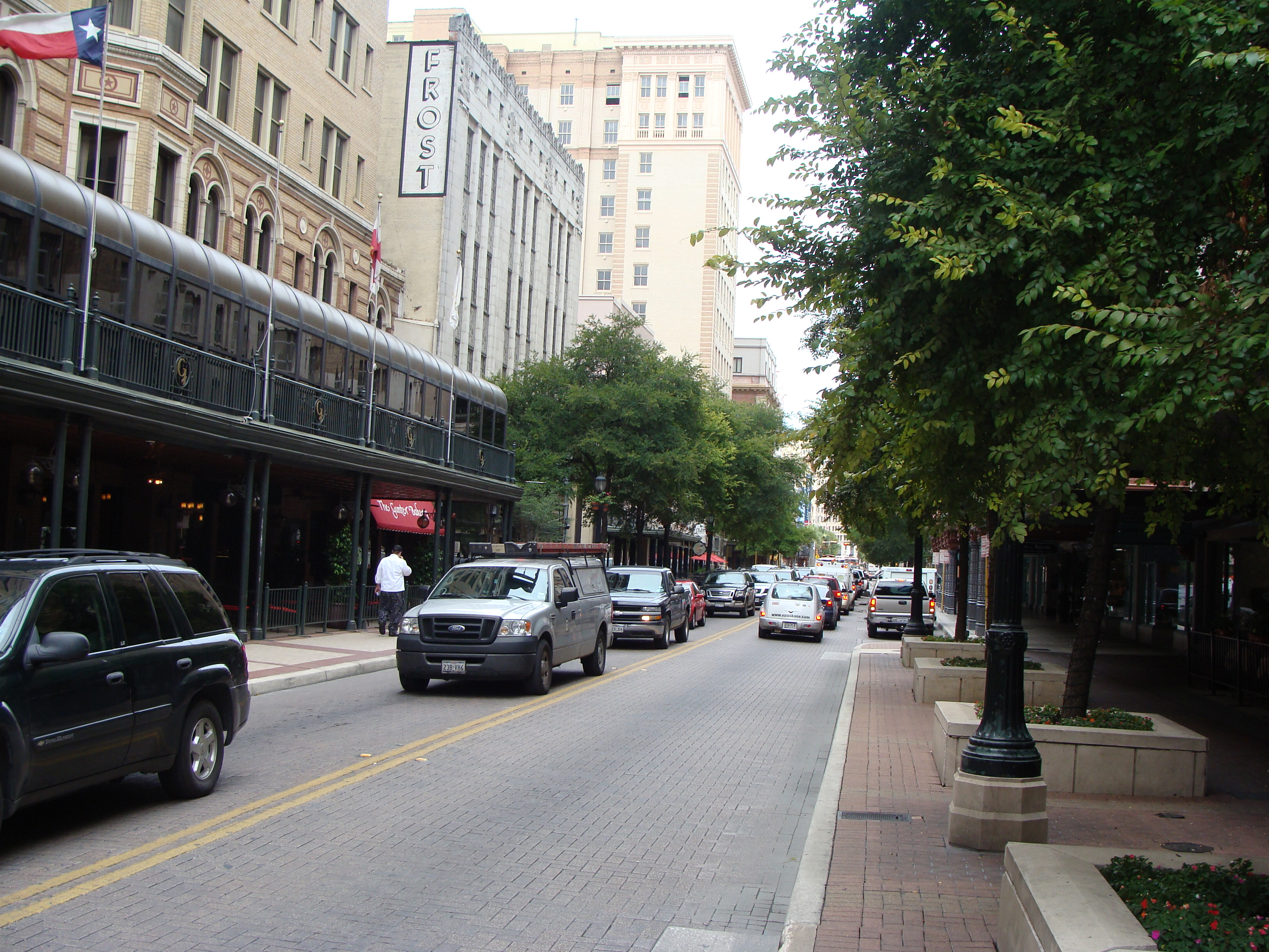 Houston Street, San Antonio, Texas. Photo by Nima Kasraie.